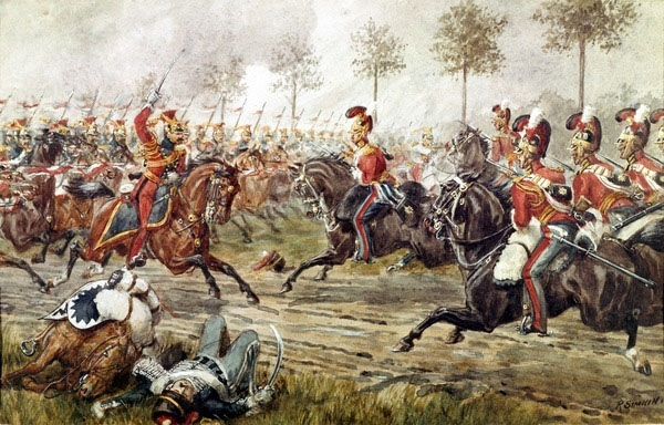 Charge of the 1st Life Guards at Genappe (17 June 1815) water colour by Richard Simkin